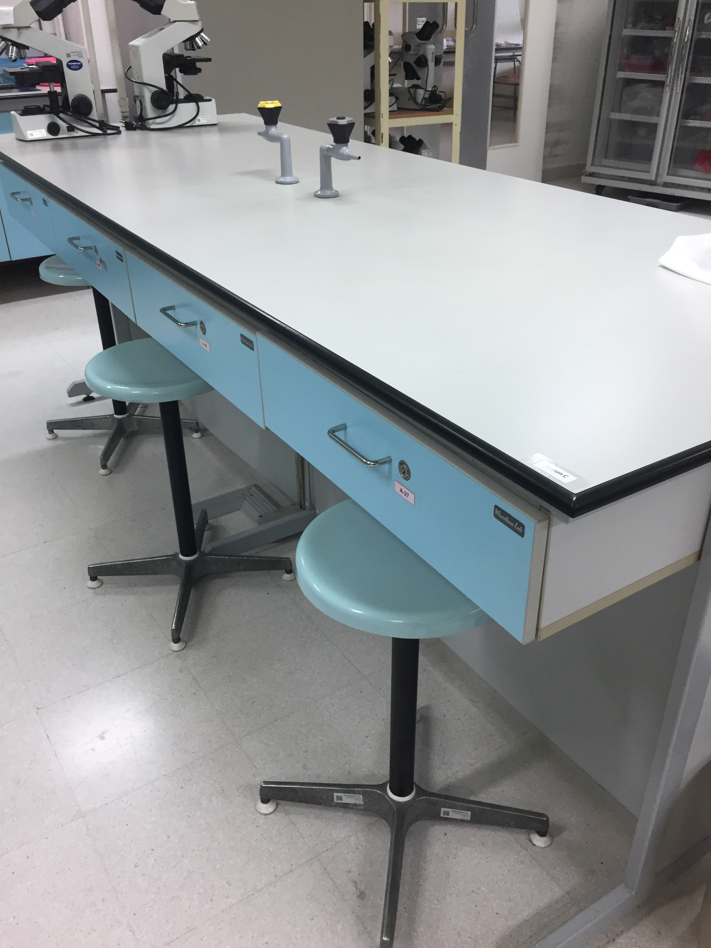 top view of a grey lab countertop with blue drawers